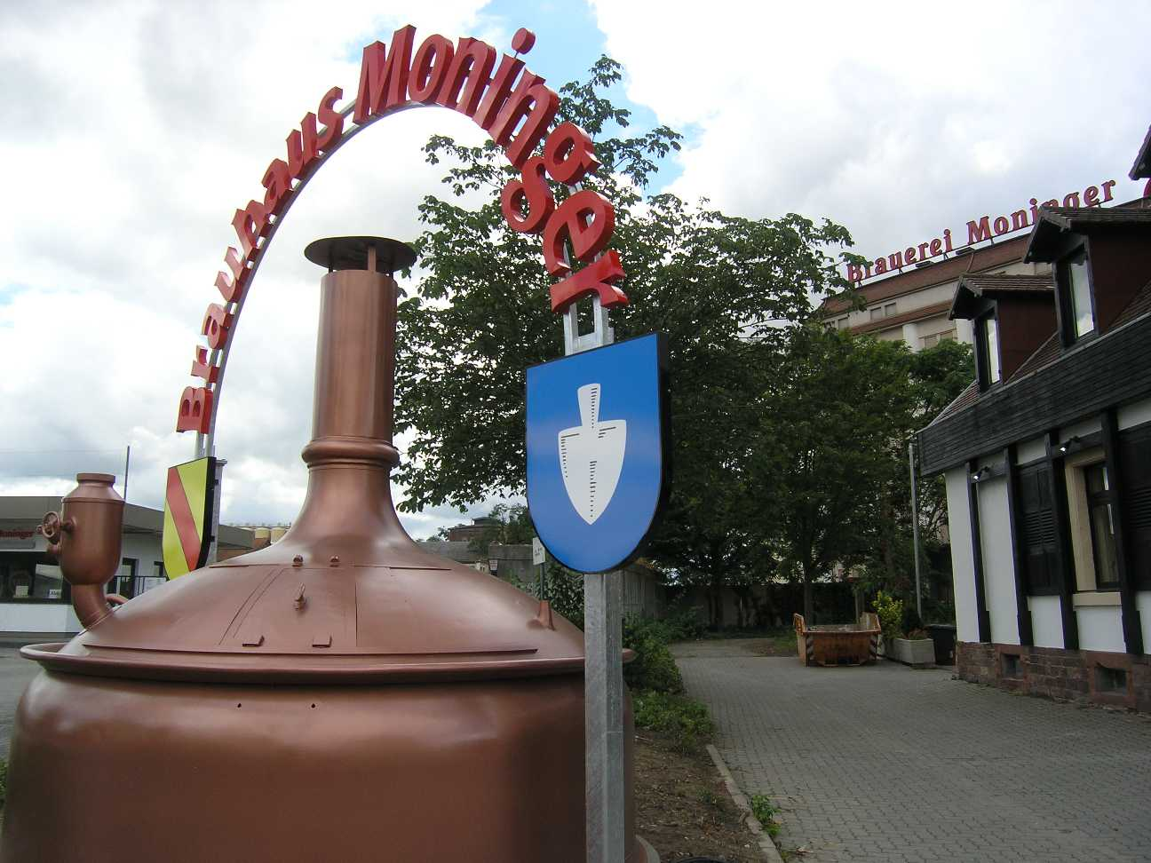 The Moninger Brewery